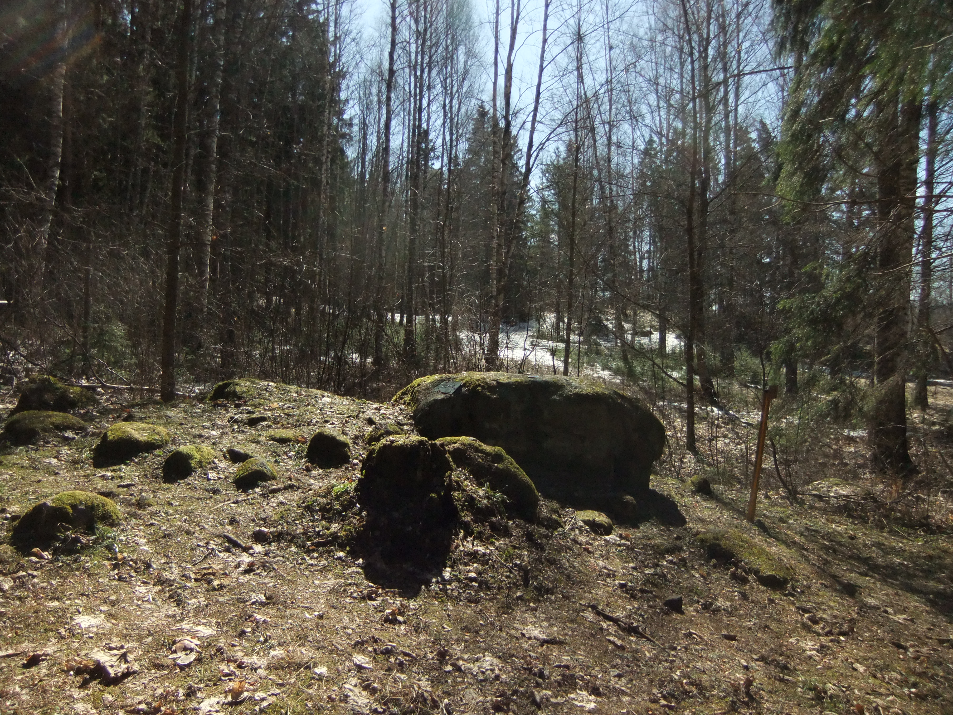 Laurinmäki sacrificial cairn in Janakkala, Finland. The central stone has cup marks on it.